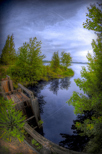 Chatsworth Lake is a reservoir located in Chatsworth, New Jersey. The latitude and longitude coordinates for this reservoir are 39.8157, -74.5452 and the altitude is 82 feet (